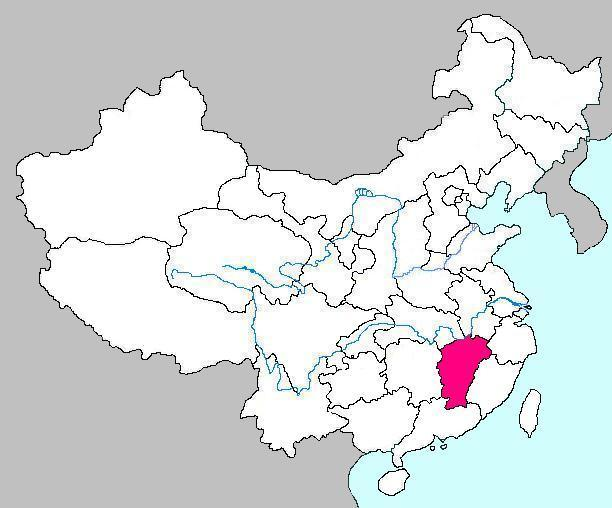 Maps of Jiangxi Province of China